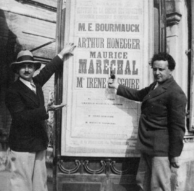 French cellist Maurice Maréchal (1892-1964) with Arthur Honegger (1892-1955) in Lyon in 1931